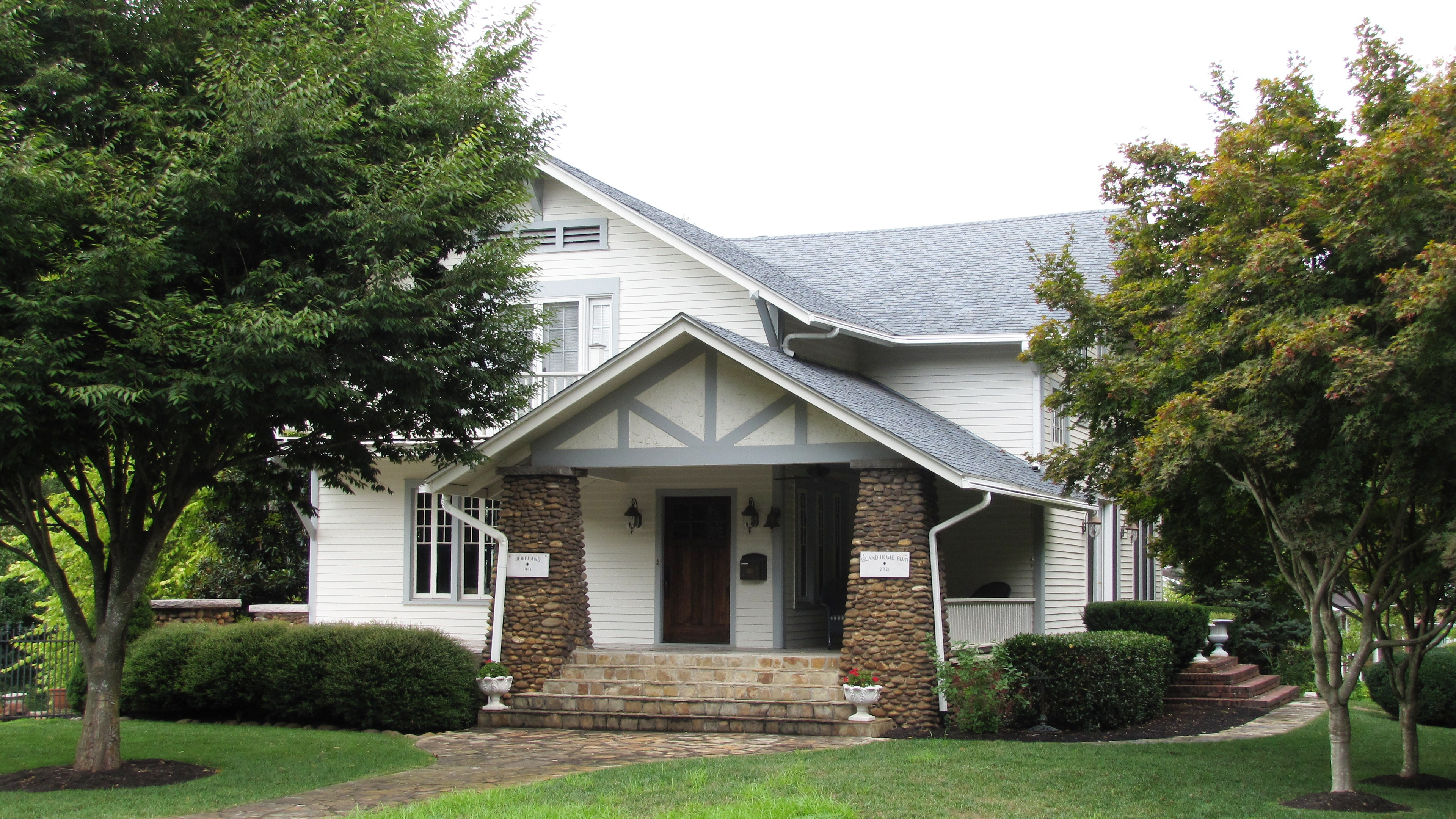 House at 2321 Island Home Boulevard in the Island Home Park neighborhood of Knoxville, Tennessee, USA. Built circa 1910, this house is now a contributing property within the NRHP-listed Island Home Park Historic District.